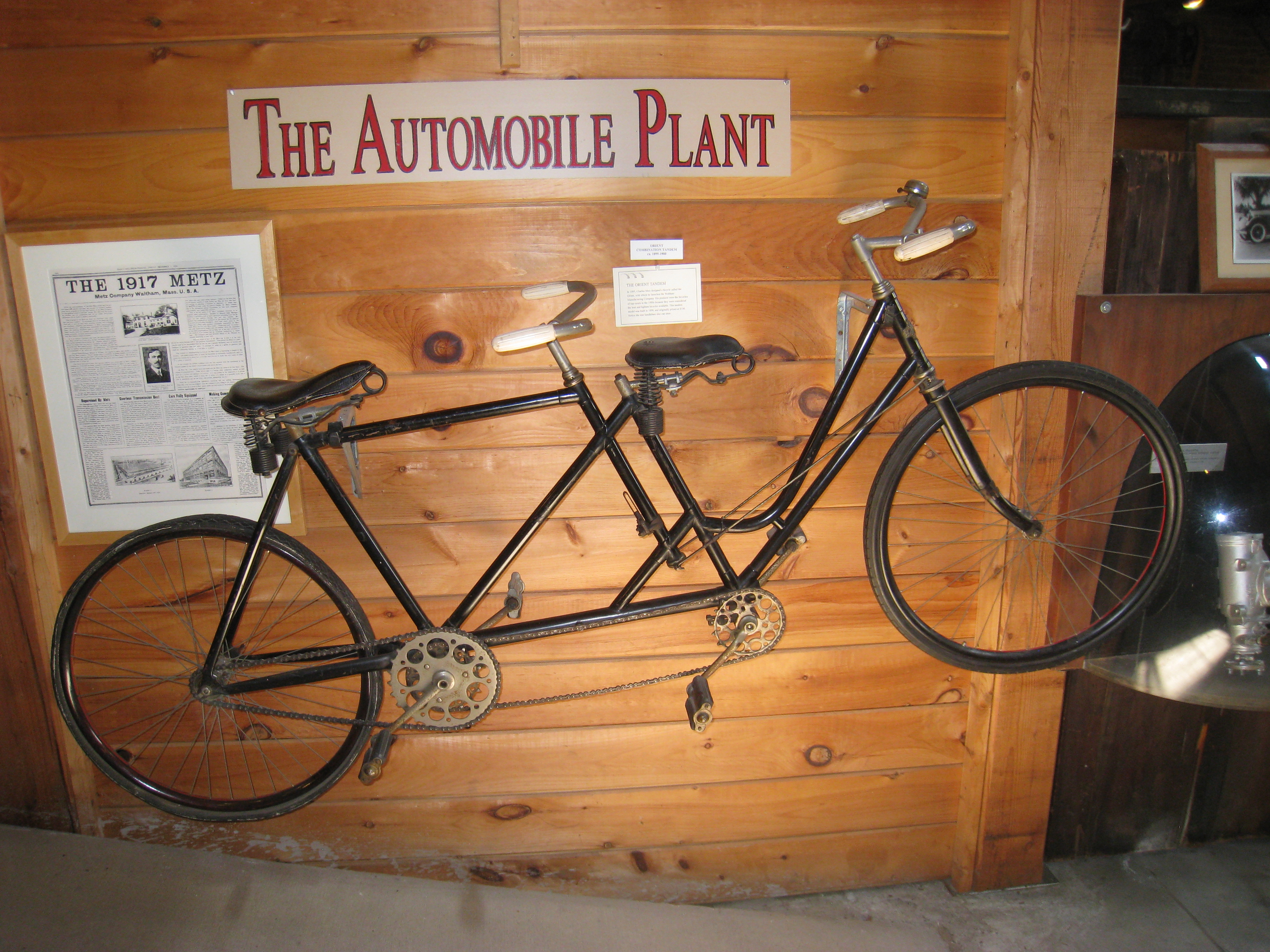 Orient Combination Tandem Bicyle, Waltham, MA, USA, 1899.